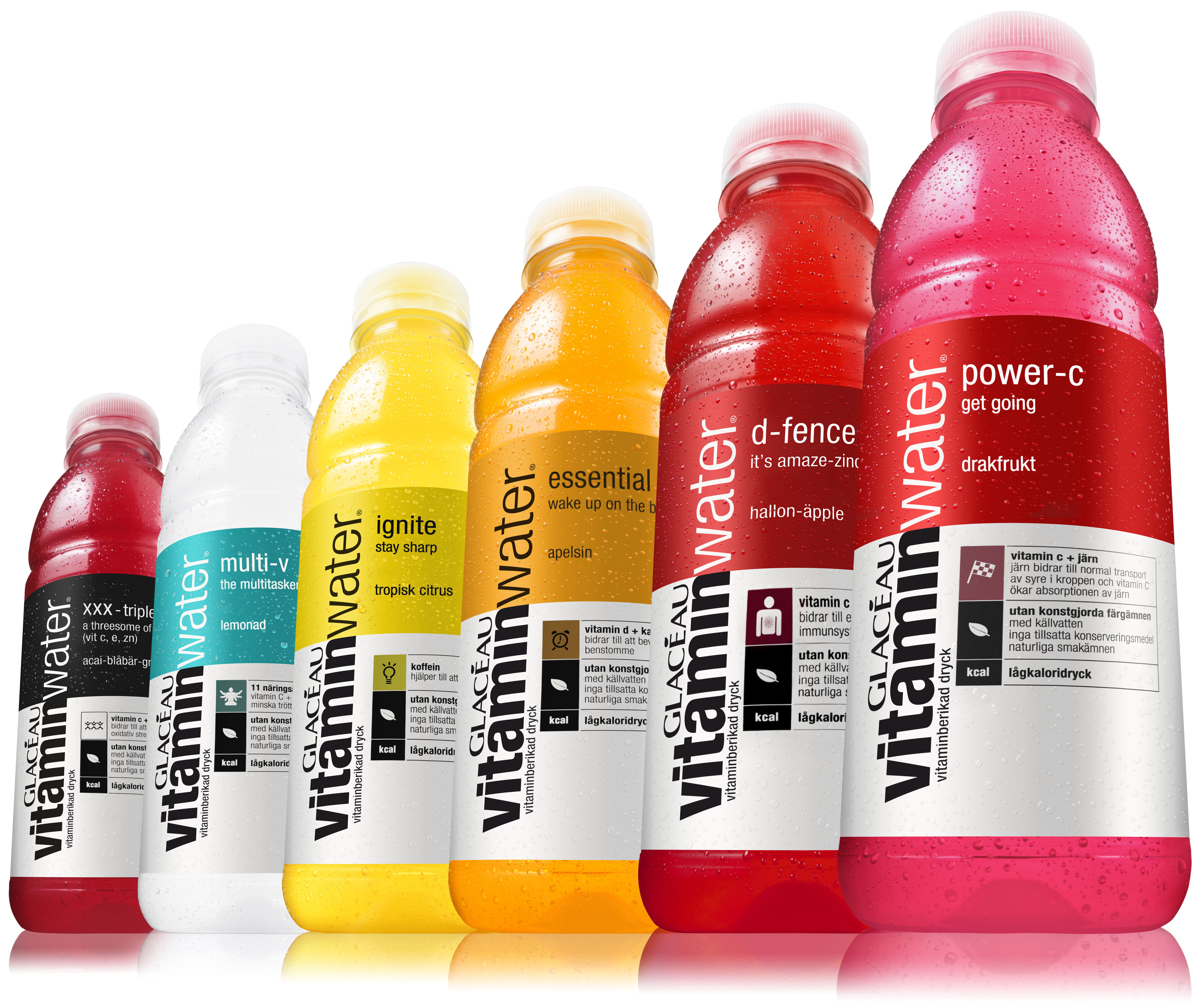 Glacéau vitaminwater-bottles